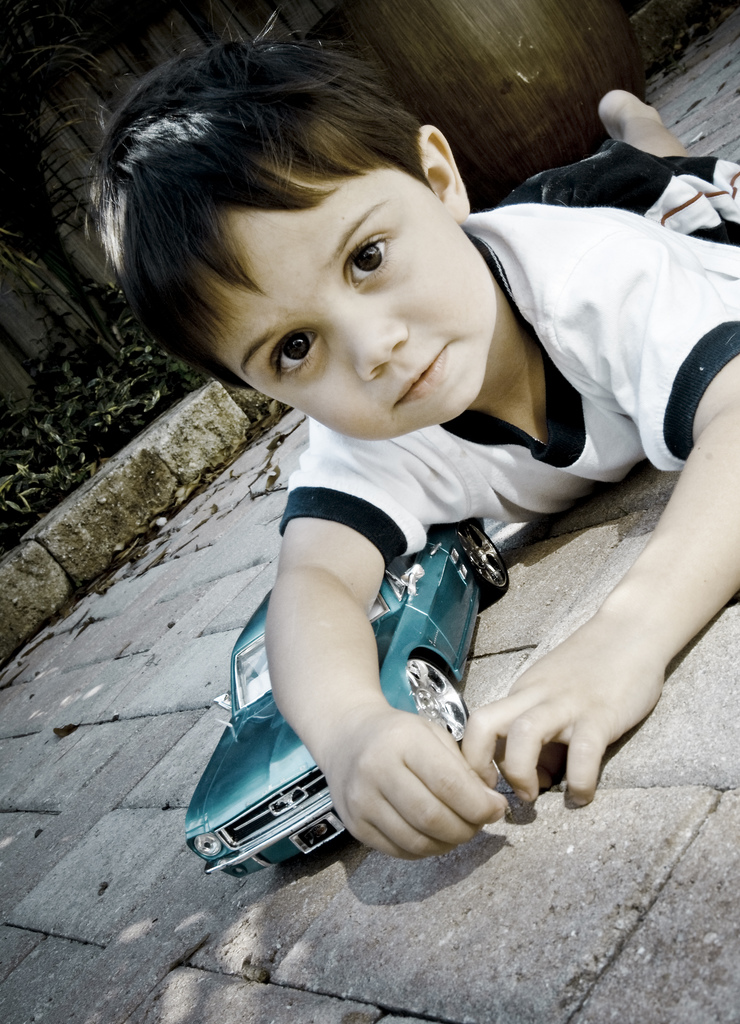 My Son playing with a car given to him by one of my customers who made me promise I would give him a photo with his new toy!